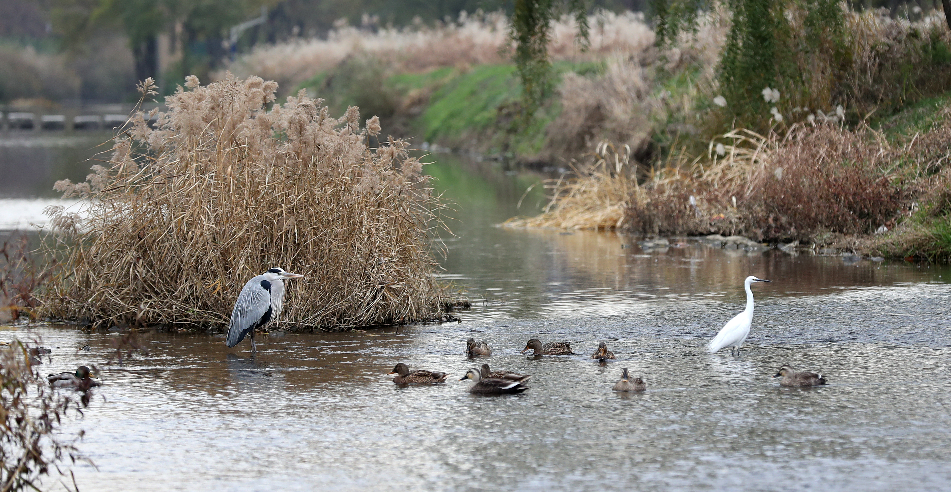 Yangjaecheon Stream A flock of herons and mallards take a moment of rest in the waters of the Yangjaecheon Stream on Nov. 21. The stream, which has been undergoing a natural process of restoration over the past 20 years, appears as the first restoration project of its kind in elementary school textbooks. November 21, 2016 Gangnam-gu, Seoul Ministry of Culture, Sports and Tourism Korean Culture and Information Service ( Official Photographer : Jeon Han